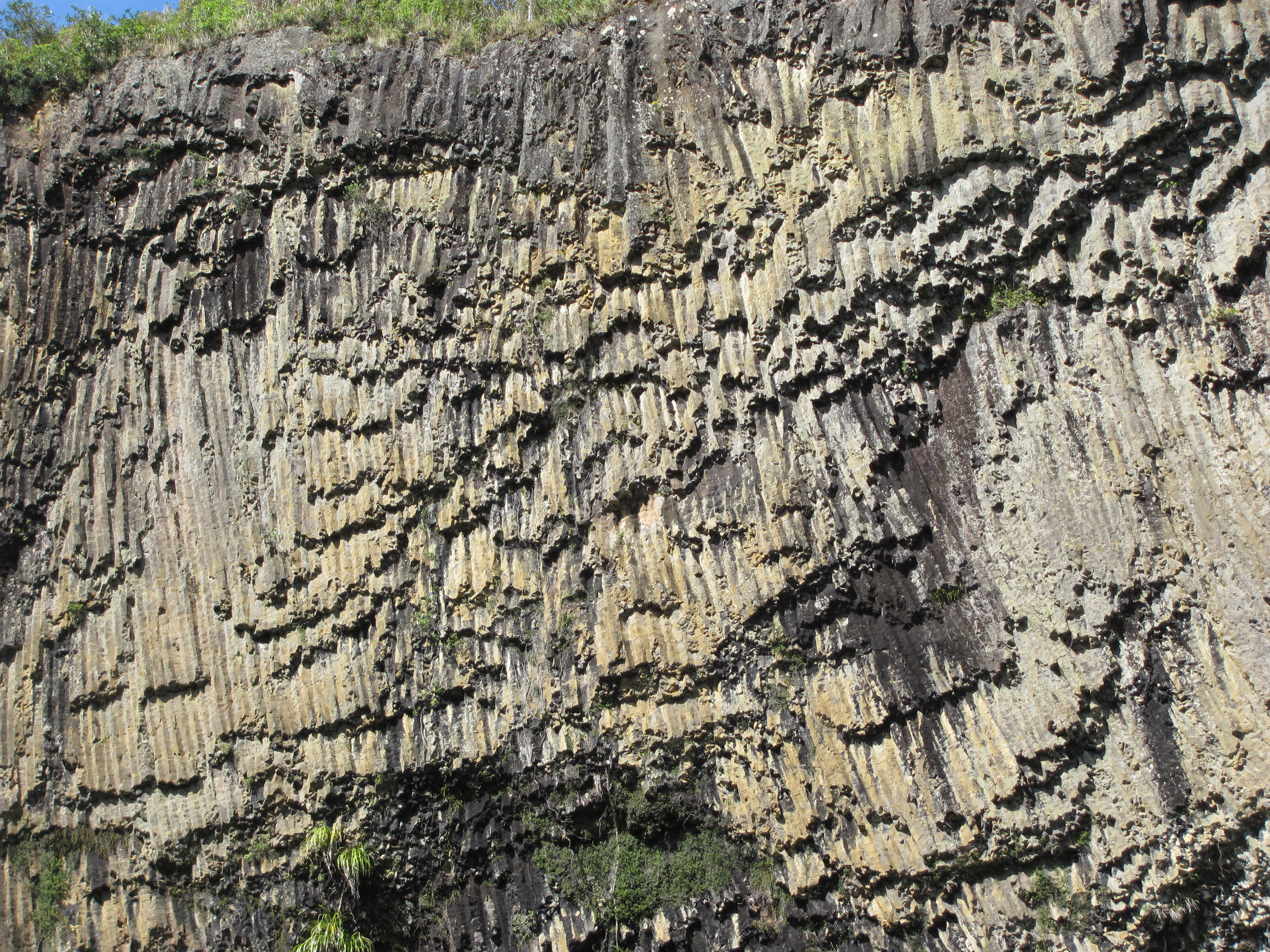 Columnar basalt at Bridal Veil Falls, NZ